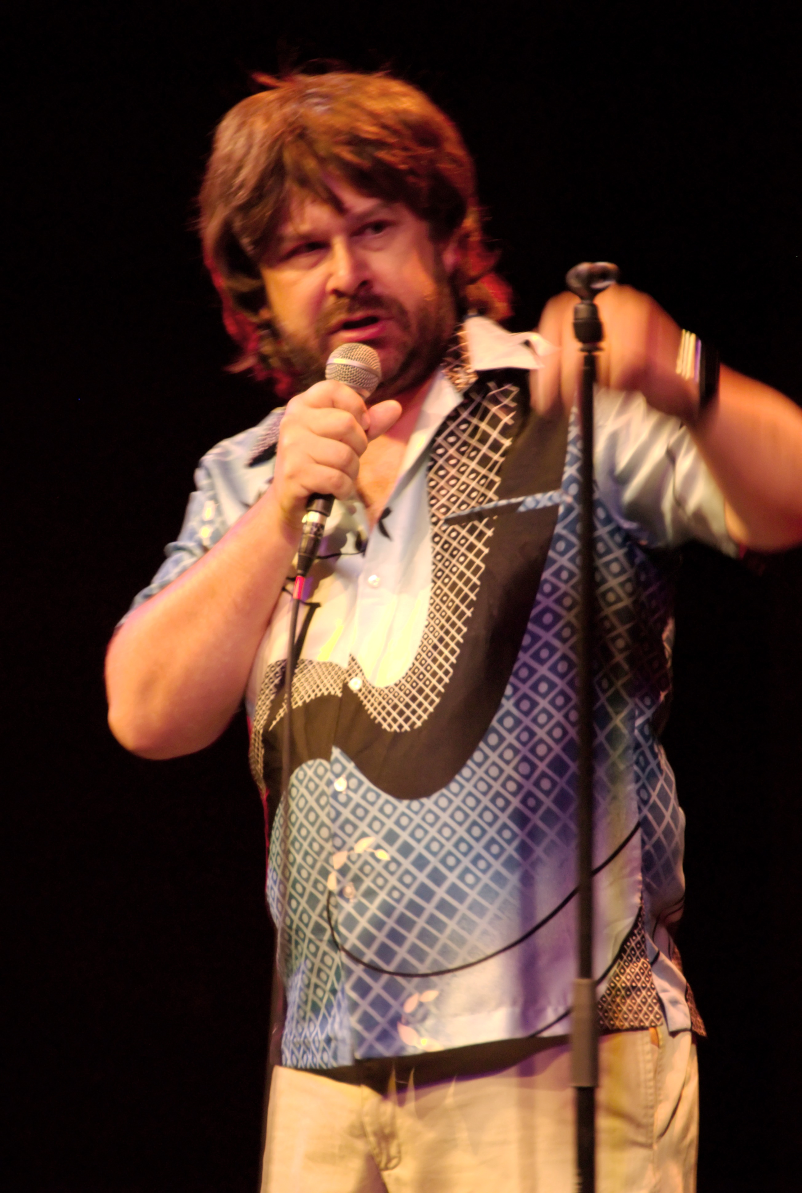 Paul Putner at the Bloomsbury Theatre, London, United Kingdom.